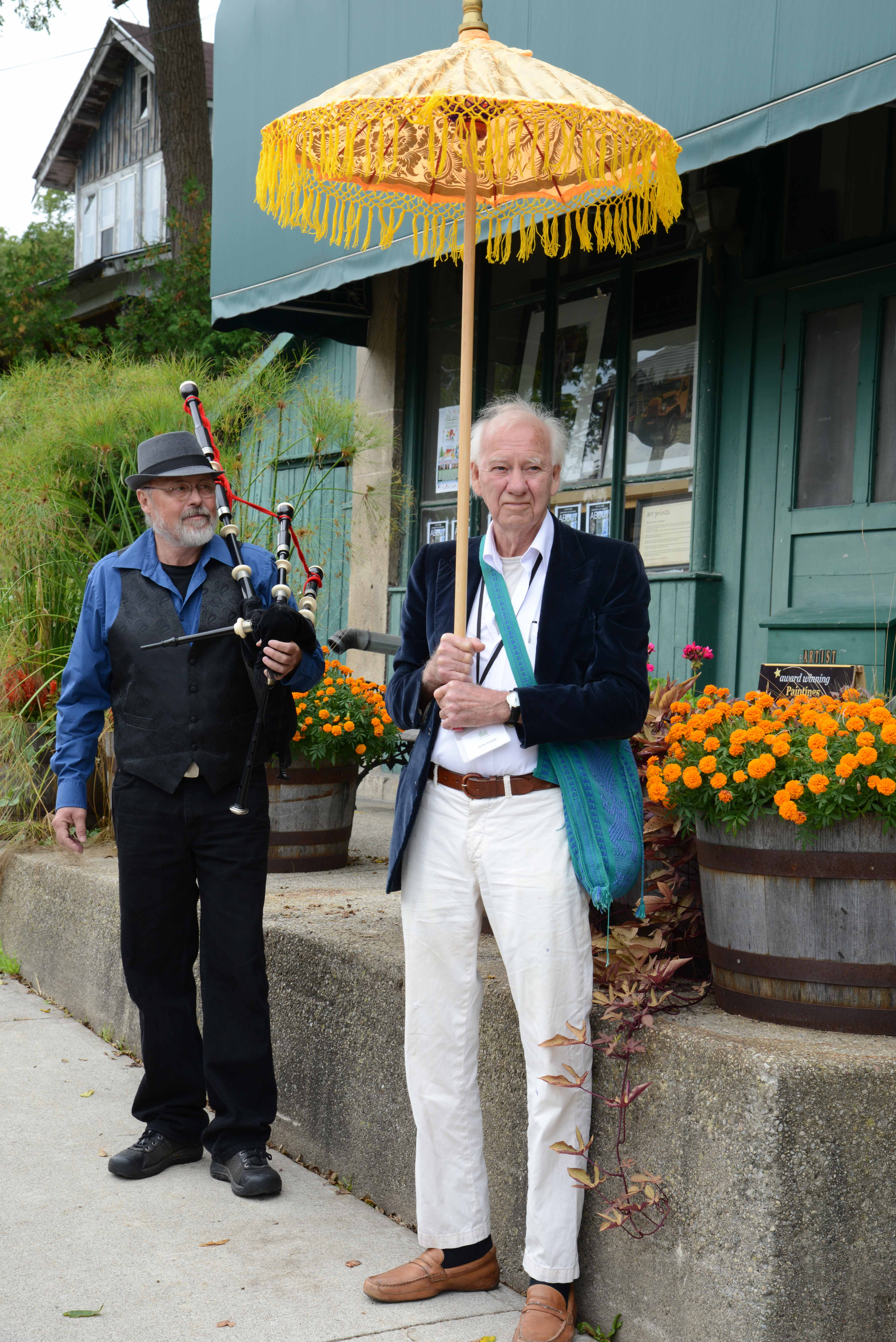 Leon Rooke on the steps of the General Store in Eden Mills where he started the Eden Mills Writers' Festival